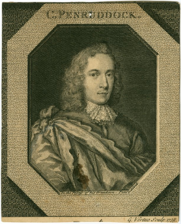 Colonel John Penruddock (1619-1655), Royalist, beheaded 1655, engraved by George Vertue 1735.